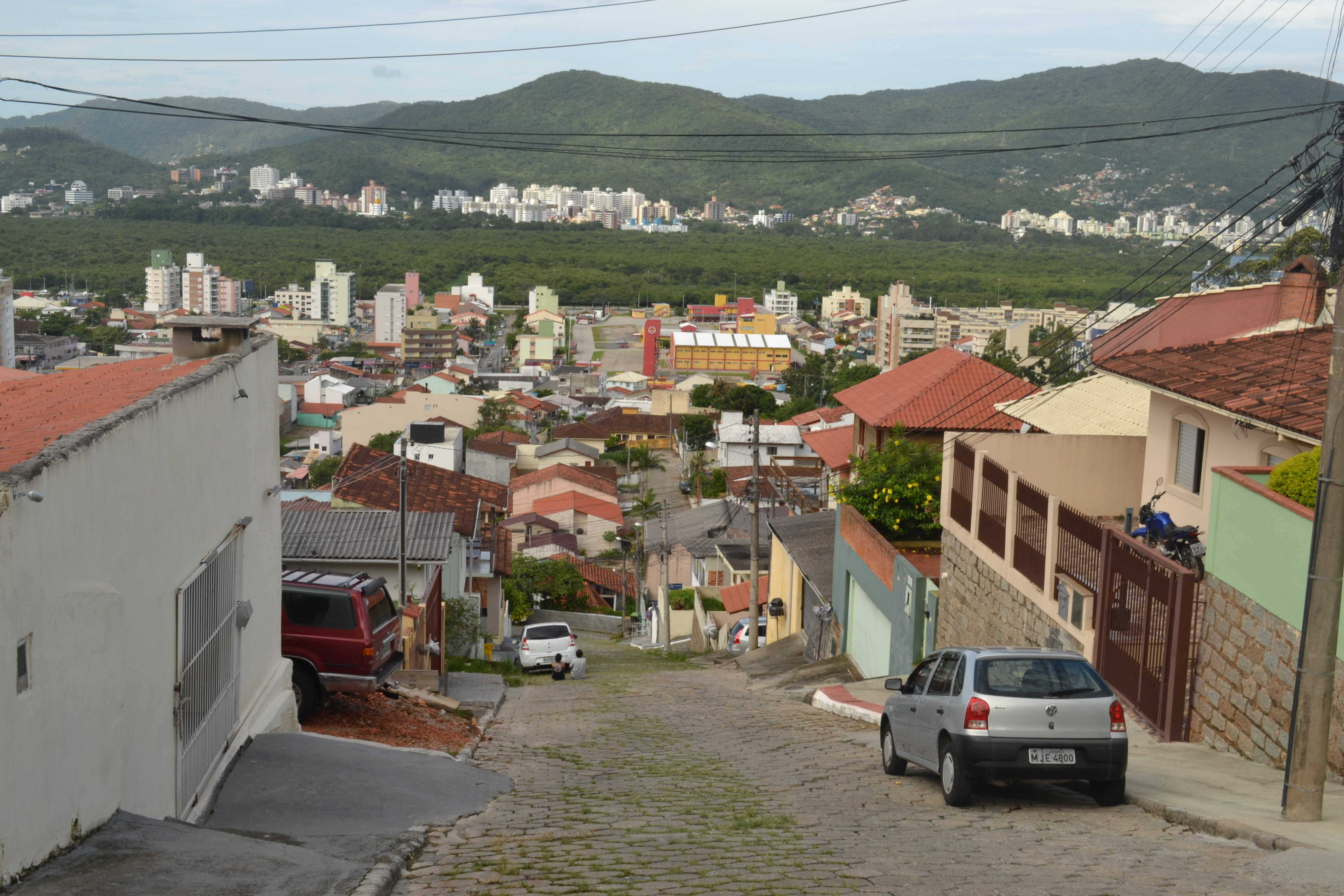 I, Janko Hoener, created this photograph. If you intend to use it, please credit me with the following attribution line: Janko Hoener / CC-BY-SA-4.0. A link back to this page and informing me about your usage is appreciated.